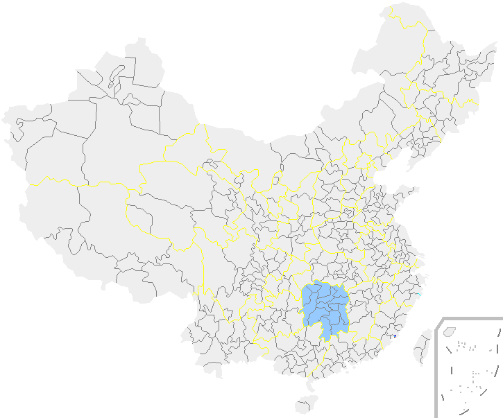 Maps of Hunana Province of China